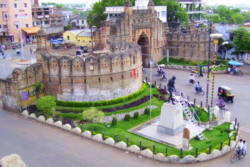 Jatpura Gate Chandrapur